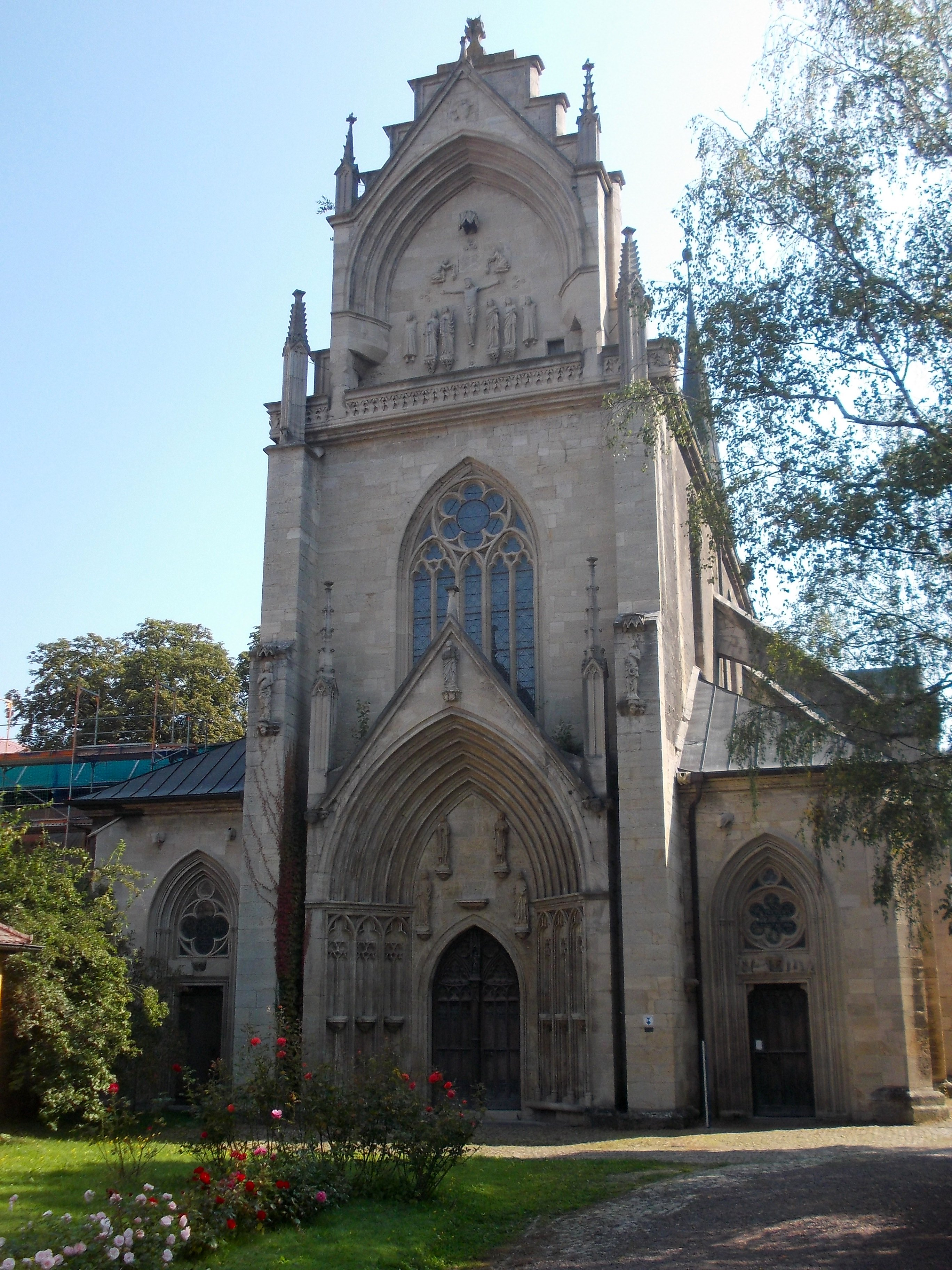 Pforta monastery church in Schulpforte (Naumburg, district: Burgenlandkreis, Saxony-Anhalt)